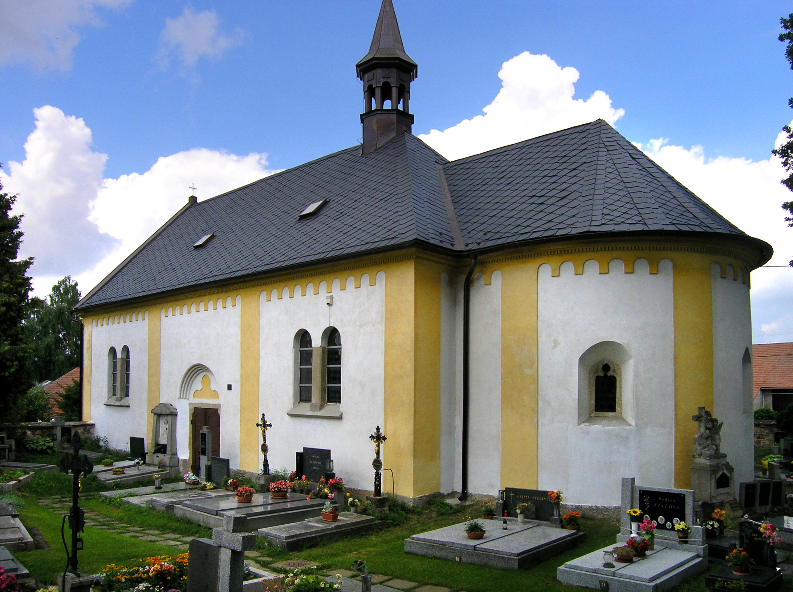 Church in Vilémovice, part of Červené Janovice, Czech Republic